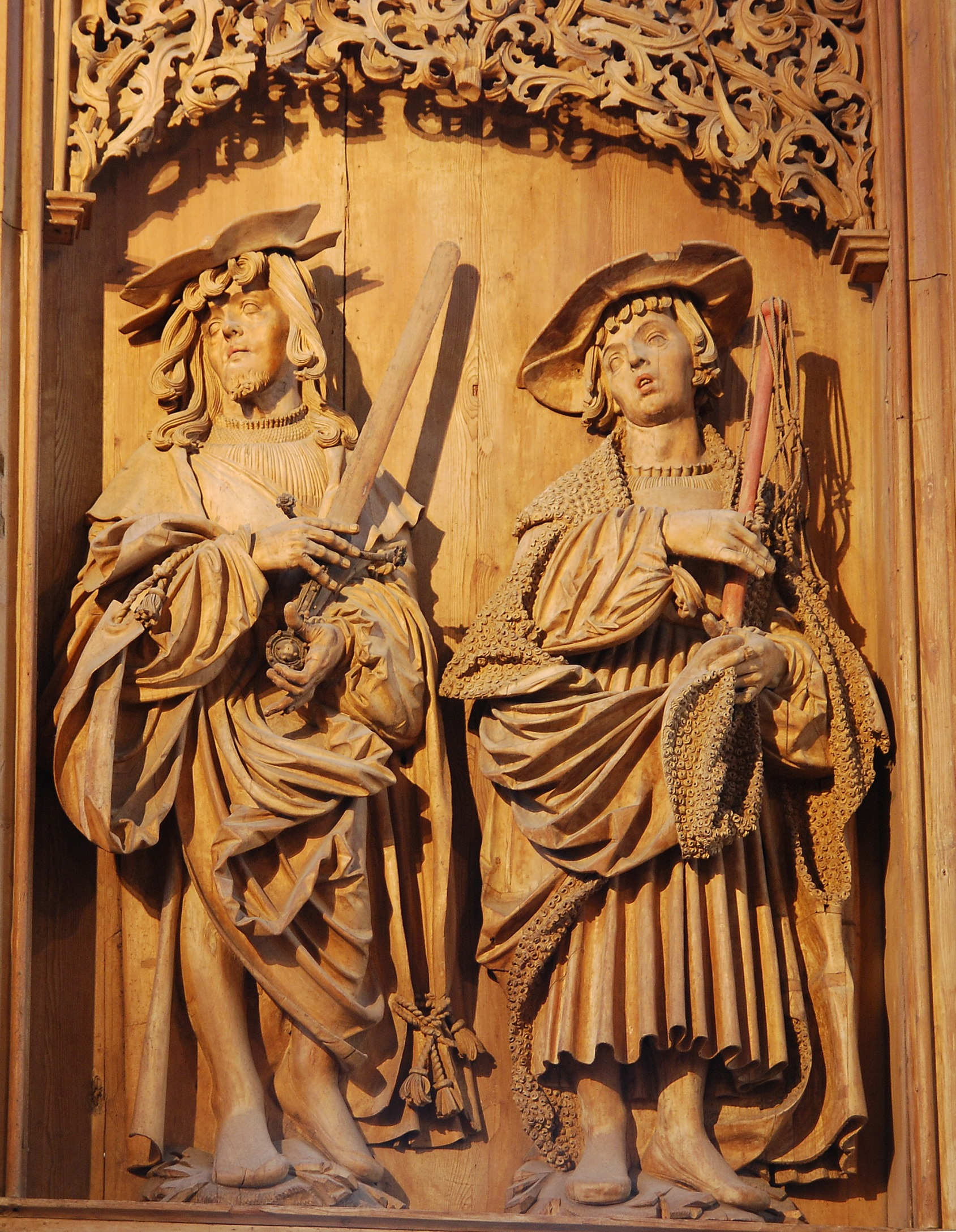 Breisach Minster: right wing of the high altar with a depiction of both patron saints of Breisach, Gervasius and Protasius.